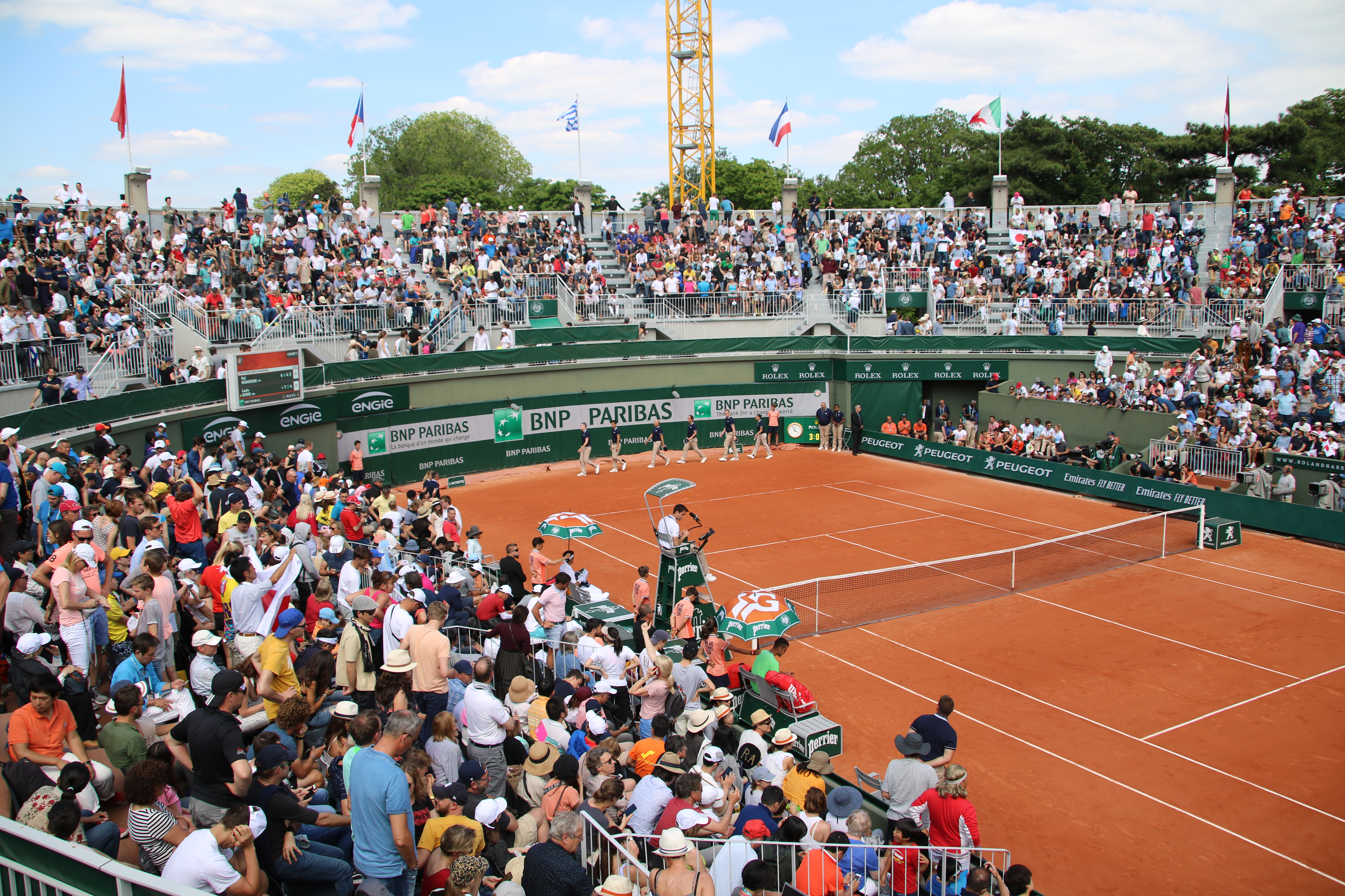 Roland Garros 2019, Court No. 1: Kei Nishikori vs Laslo Đere